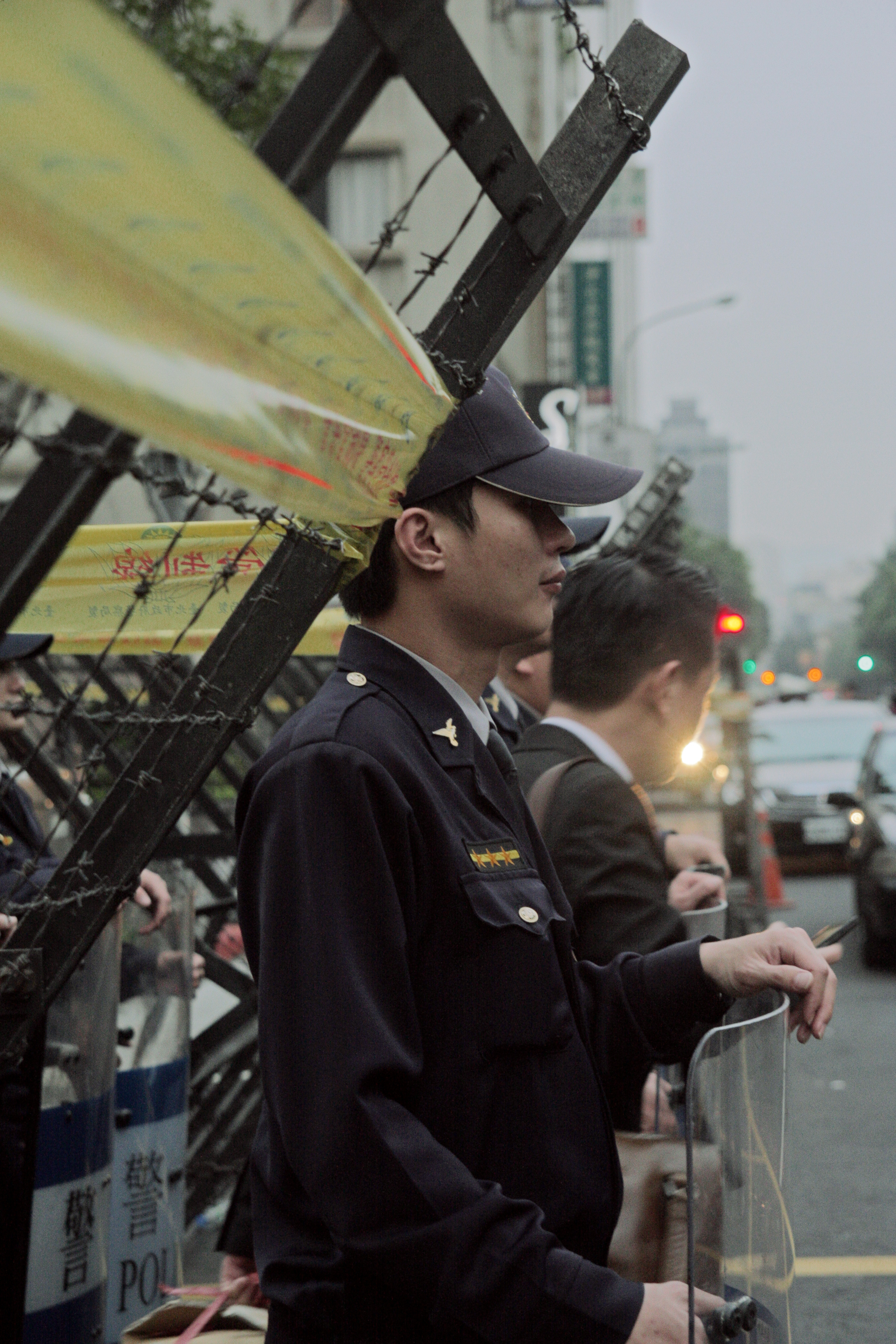 A young Taipei City (台北市) police officer stands guard in front of the Legislative Yuan Research Building (立法院委員研究大樓)